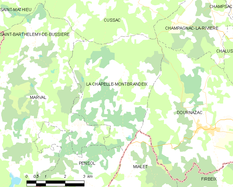 Map of French municipality La Chapelle-Montbrandeix